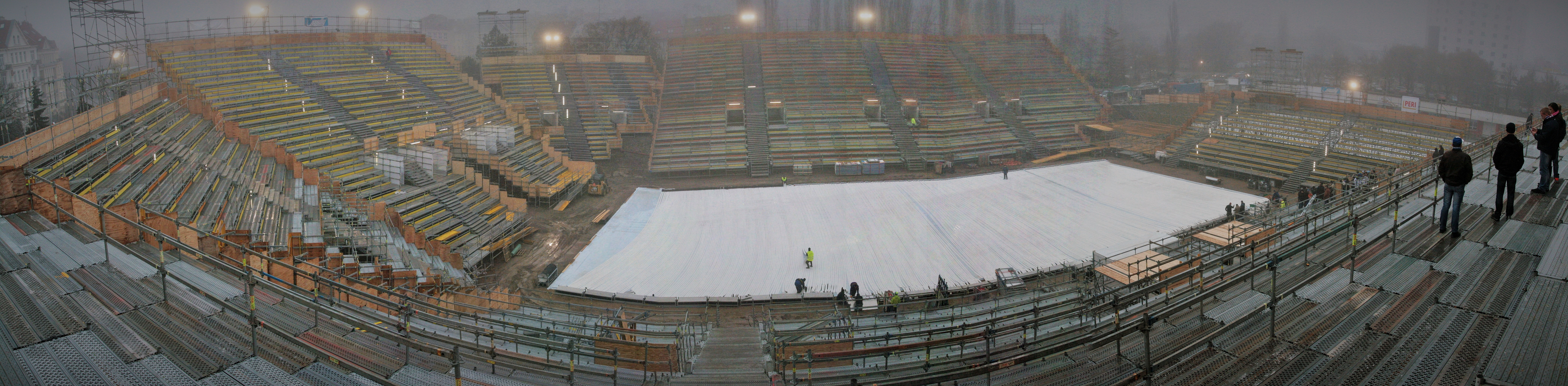 Outdoor hockey arena in Brno-Královo Pole.